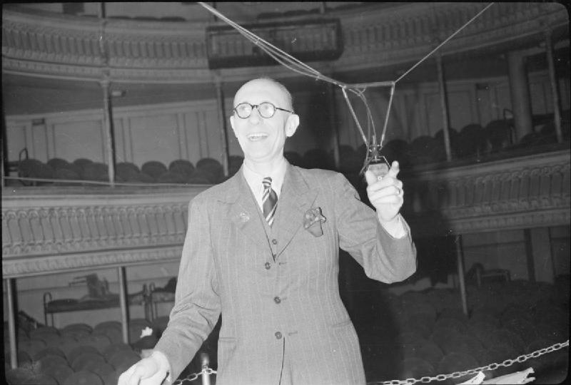 The Laugh!- the Recording of the Radio Comedy 'itma', London, England, UK, 1945 A portrait of laughing conductor Charlie Shadwell, as he prepares to conduct the BBC Variety Orchestra (not pictured) during the recording of 'It's That man Again'. Behind him, the empty seats of the theatre auditorium, where the show is recorded, can be seen. A microphone is clearly visible to the right of the photograph.